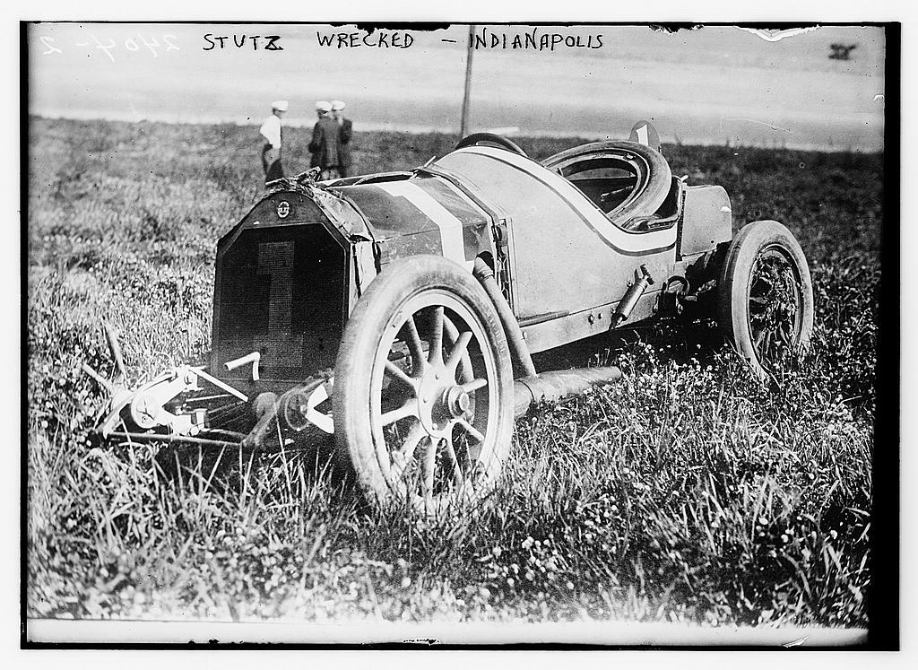 Title: Stutz wrecked - Indianapolis Abstract/medium: 1 negative : glass ; 5 x 7 in. or smaller.